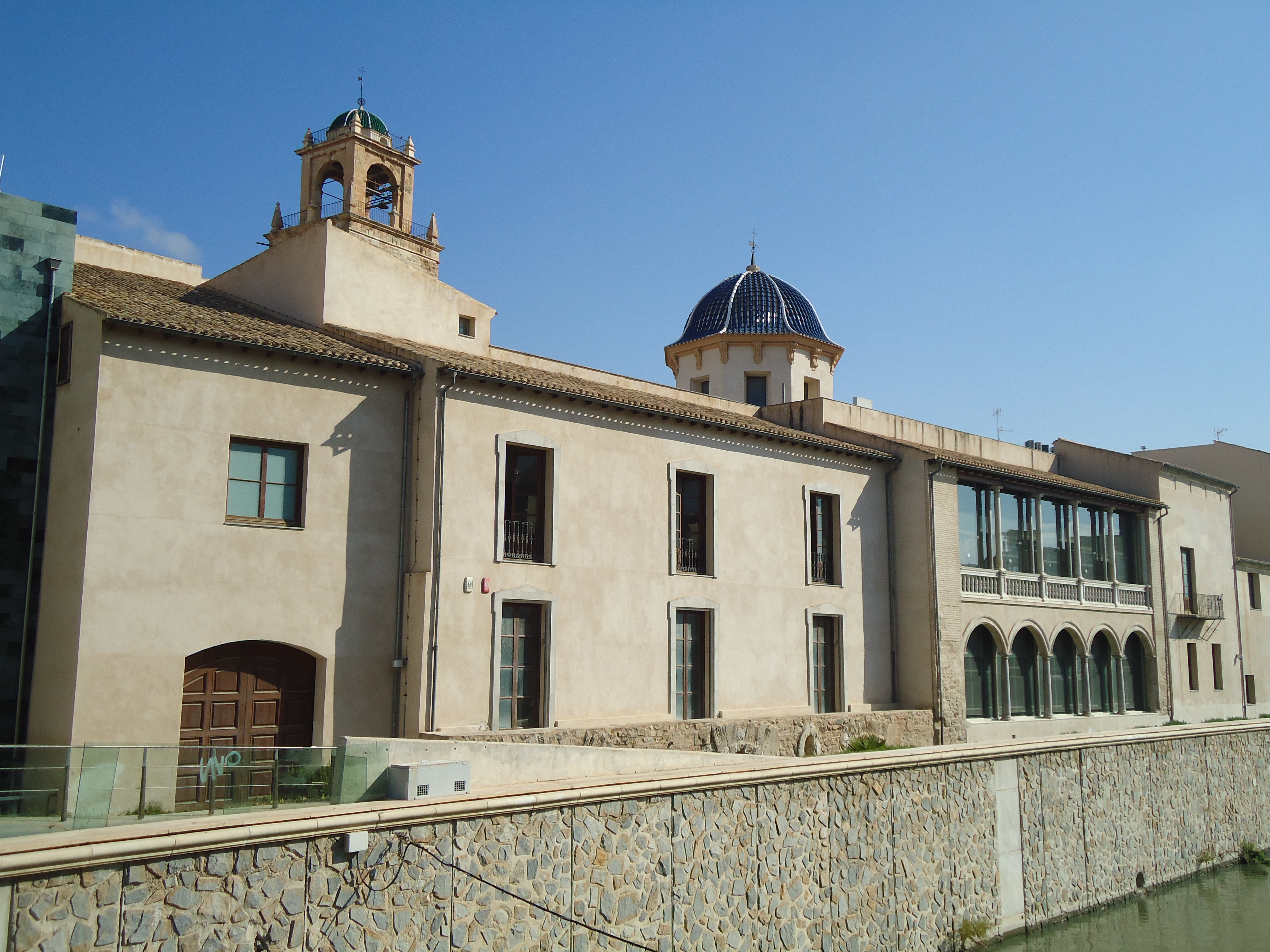 Façana sud del Palau Episcopal, Oriola